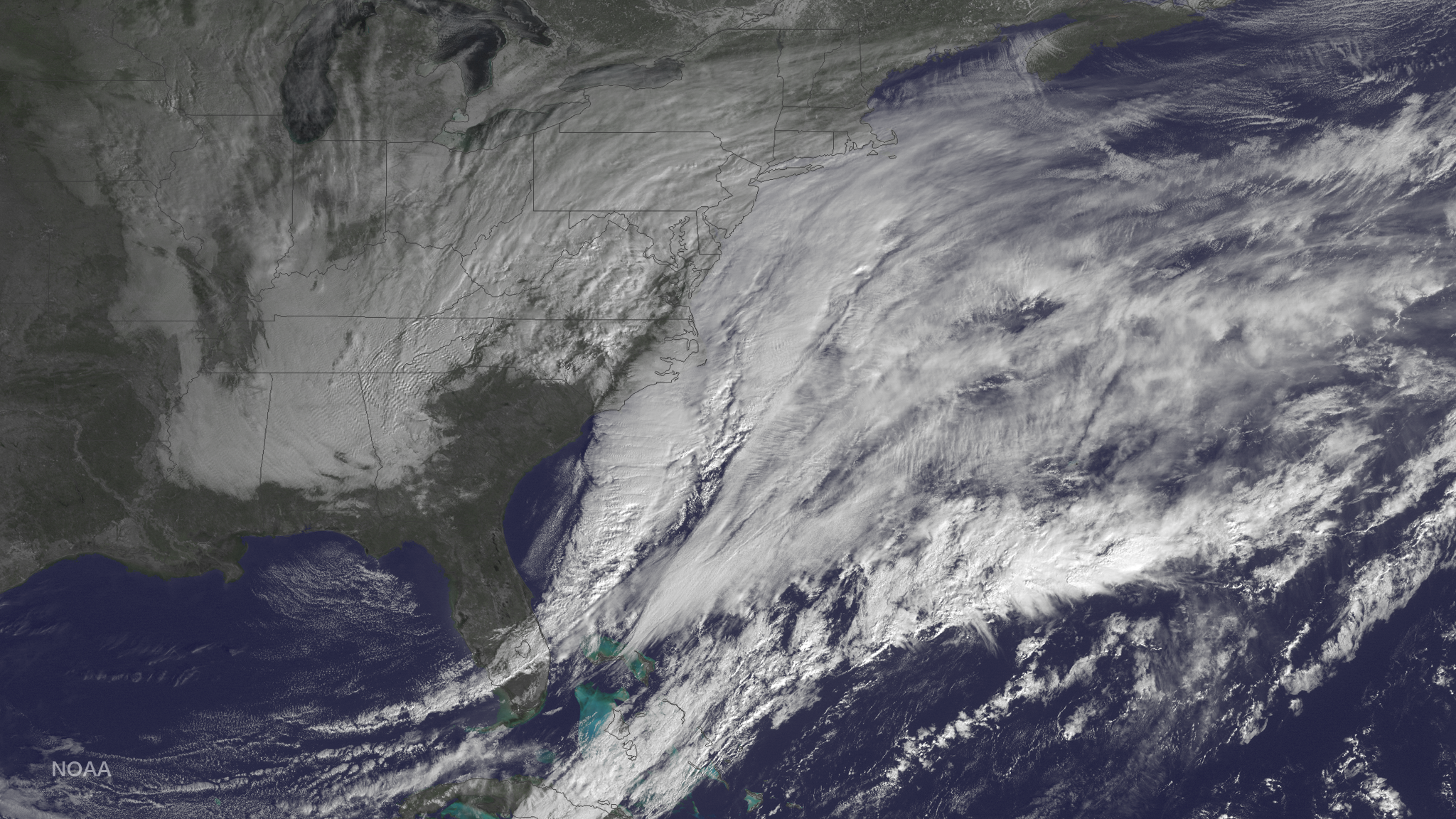 Visible satellite imagery of an Alberta clipper on January 26, 2015 as it progresses southeastward across the Central and East United States. This clipper is expected to develop into a potentially historic nor'easter by January 27.